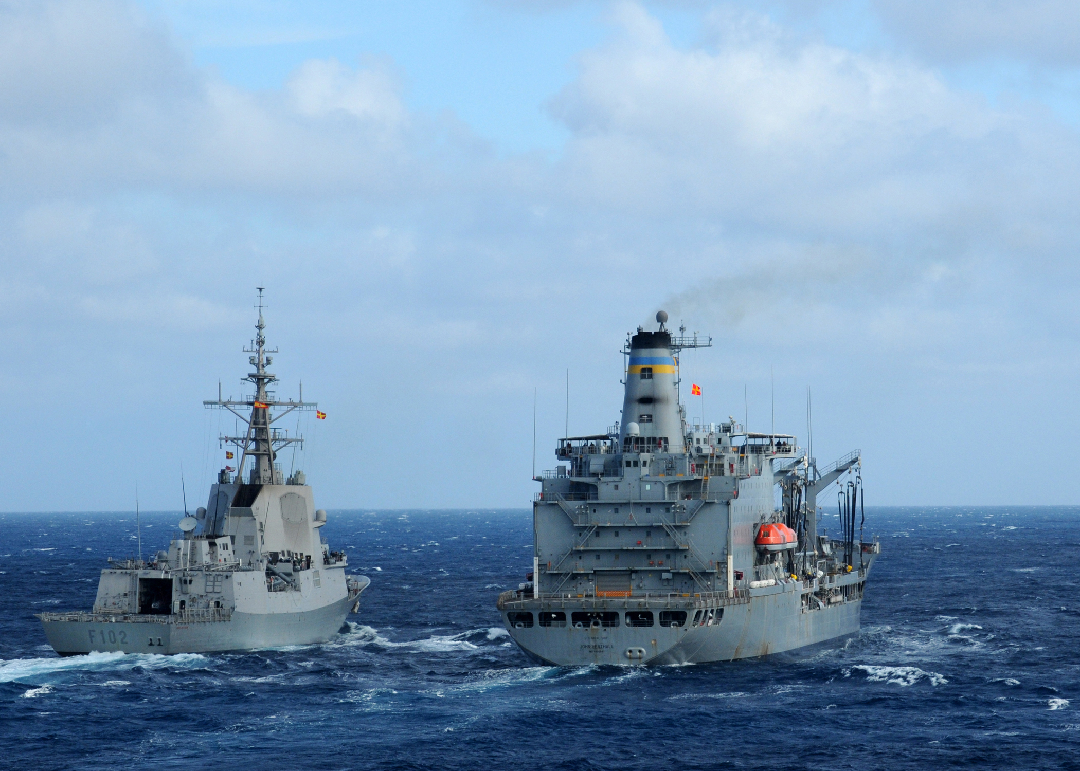 ATLANTIC OCEAN (Feb. 5, 2011) The Spanish navy frigate ESPS Almirante Juan De Borbon (F 102), left, approaches the Military Sealift Command fleet replenishment oiler USNS John Lenthall (T-AO 189) for a replenishment at sea. Borbon is conducting a composite training unit exercise as part of the George H.W. Bush Carrier Strike Group in preparation for an upcoming combat deployment. (U.S. Navy photo by Mass Communication Specialist 3rd Class Brian M. Brooks/Released)